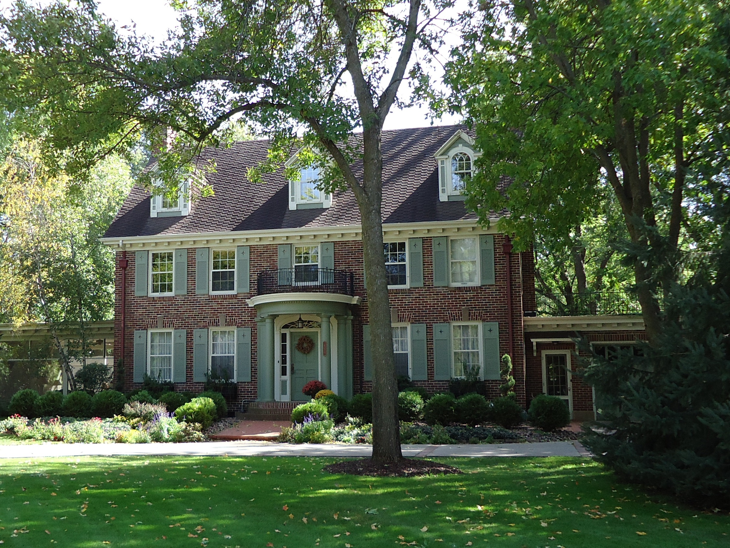 Dr. Nels Werner House